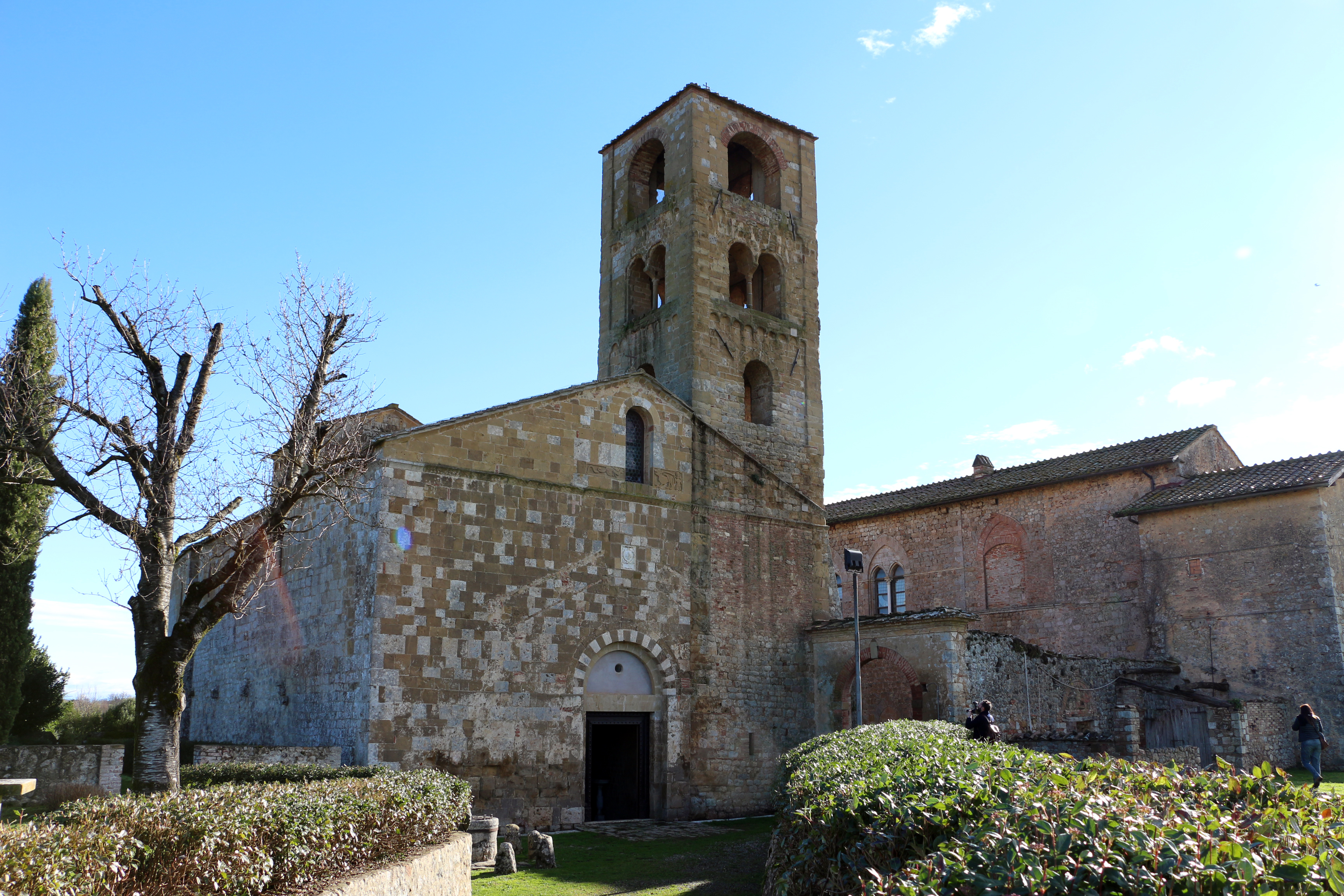 San Giovanni Battista a Ponte allo Spino